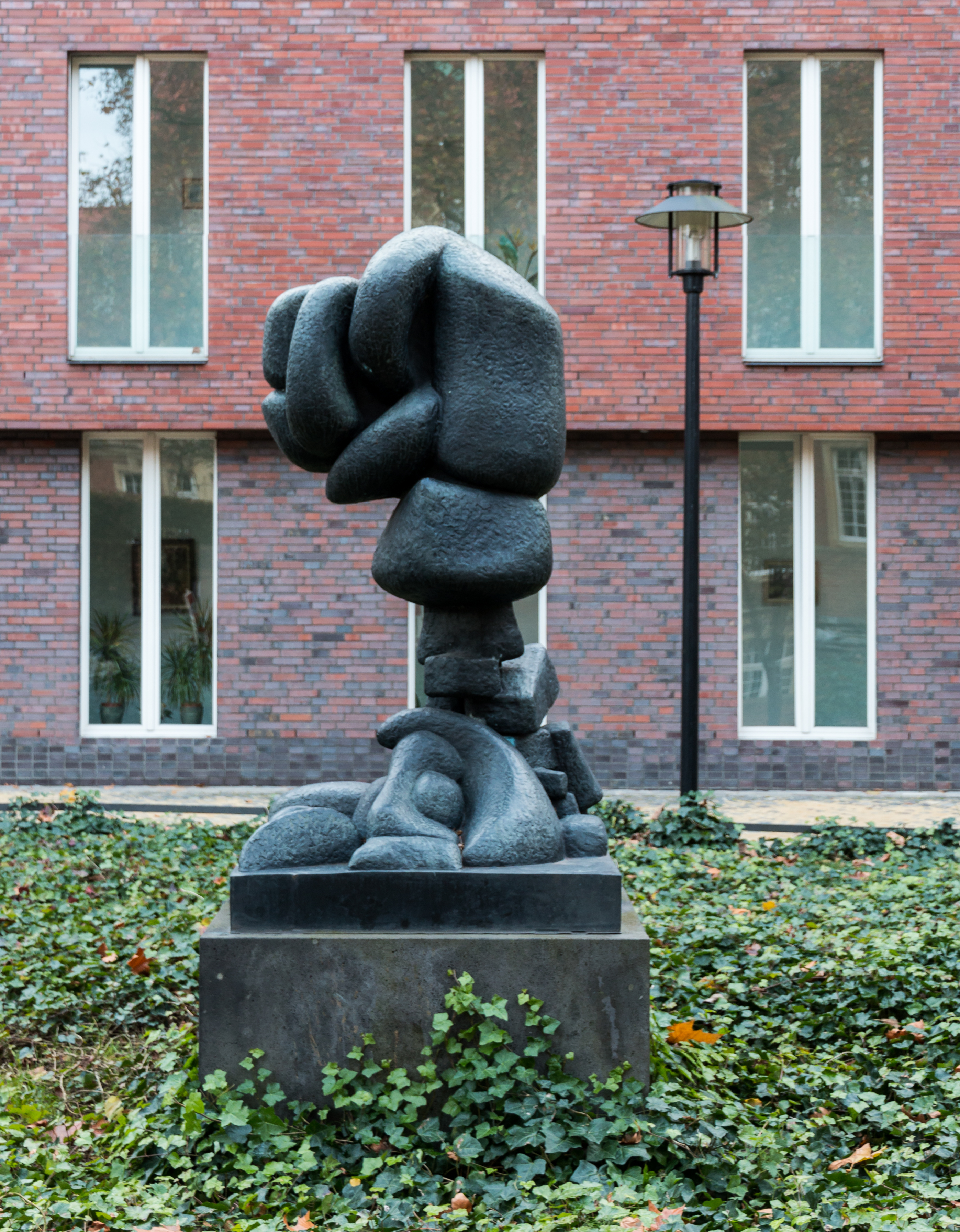 Sculpture “Der Aufstieg” (Otto Freundlich, 1929), Münster, North Rhine-Westphalia, Germany Sculpture TitleDer AufstiegArtistOtto FreundlichDate1929